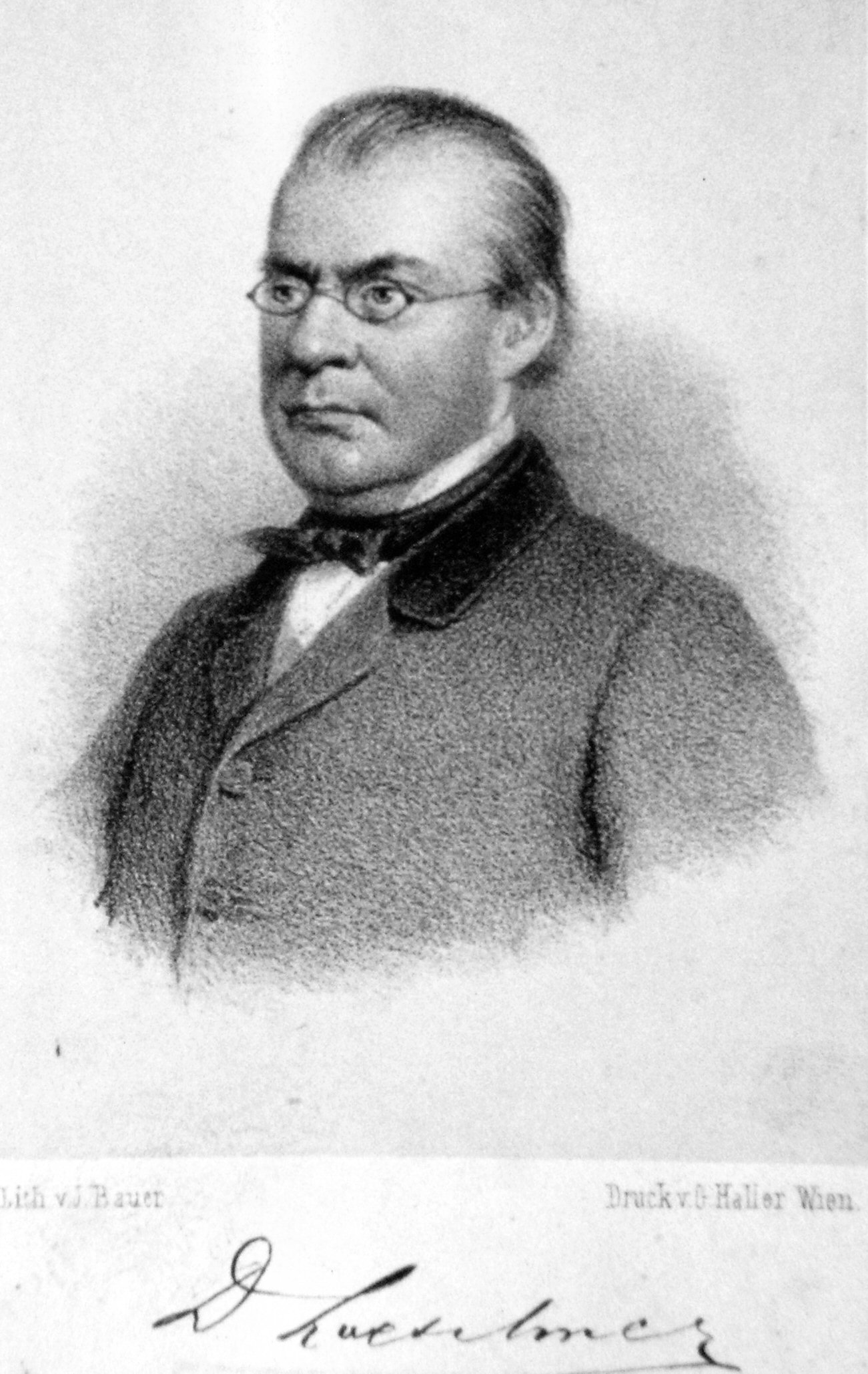 Josef Löschner (1809-1888), Austrian Doctor, Lithograph by Josef Anton Bauer